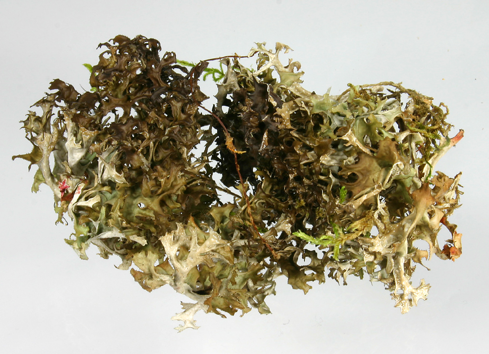 dried Icelandic moss - Cetraria islandica